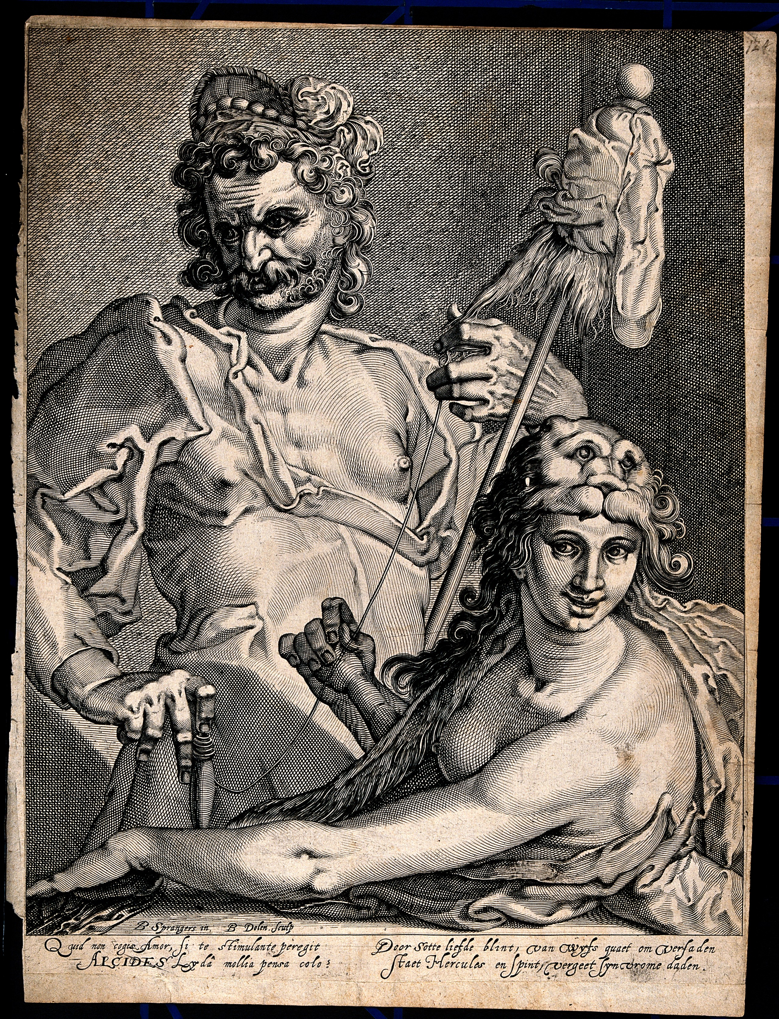 Iconographic Collections